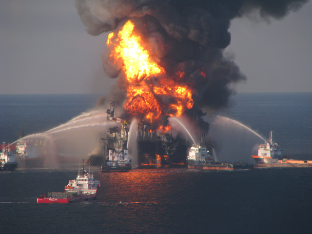 Fire boat response crews battle the blazing remnants of the off shore oil rig Deepwater Horizon